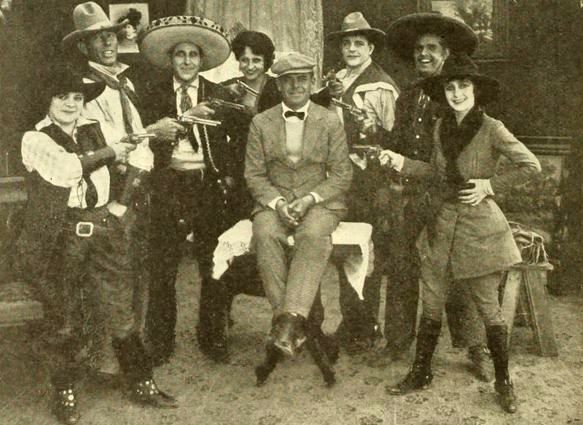 Still with the cast from the 15-episode American western film serial The Masked Rider (1919) with Ruth Stonehouse, Paul Panzer, and Harry Myers, on page 890 of the May 10, 1919 Moving Picture World.